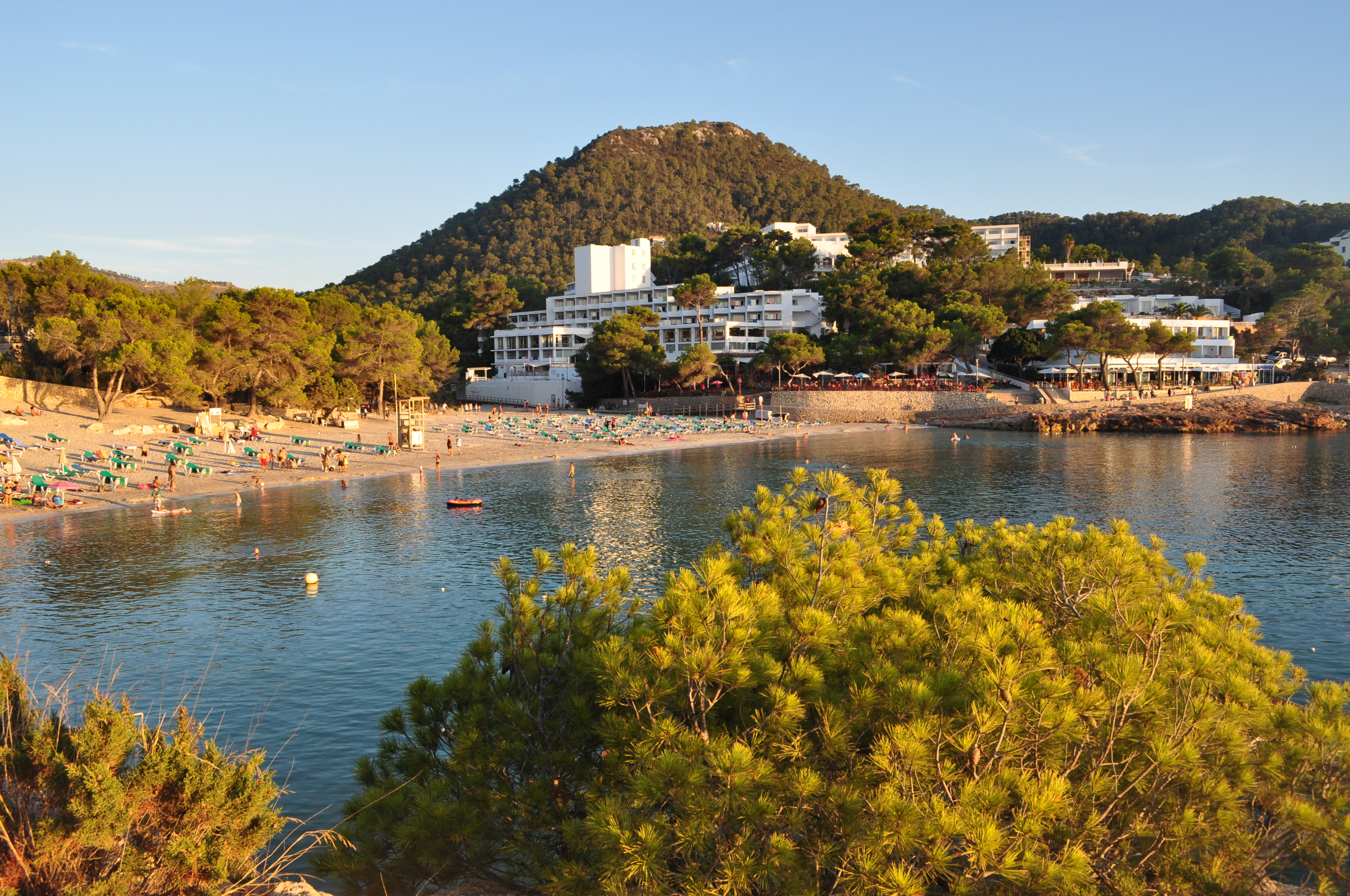 The photograph was taken at around 6-8pm in the small village of Portinatx, a very beautiful and quiet place. Although I am unsure of the name of that mountain.